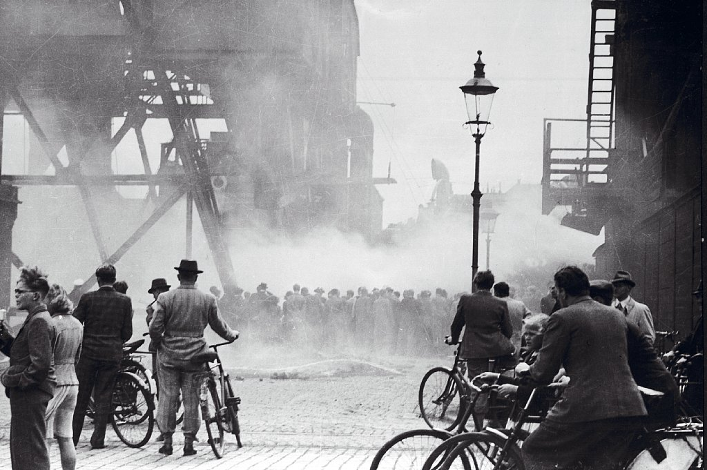 The sabotage group BOPA places 150 kg. explosives in a train that blew up while it was crossing the bridge. More images from The Museum of Danish Resistance